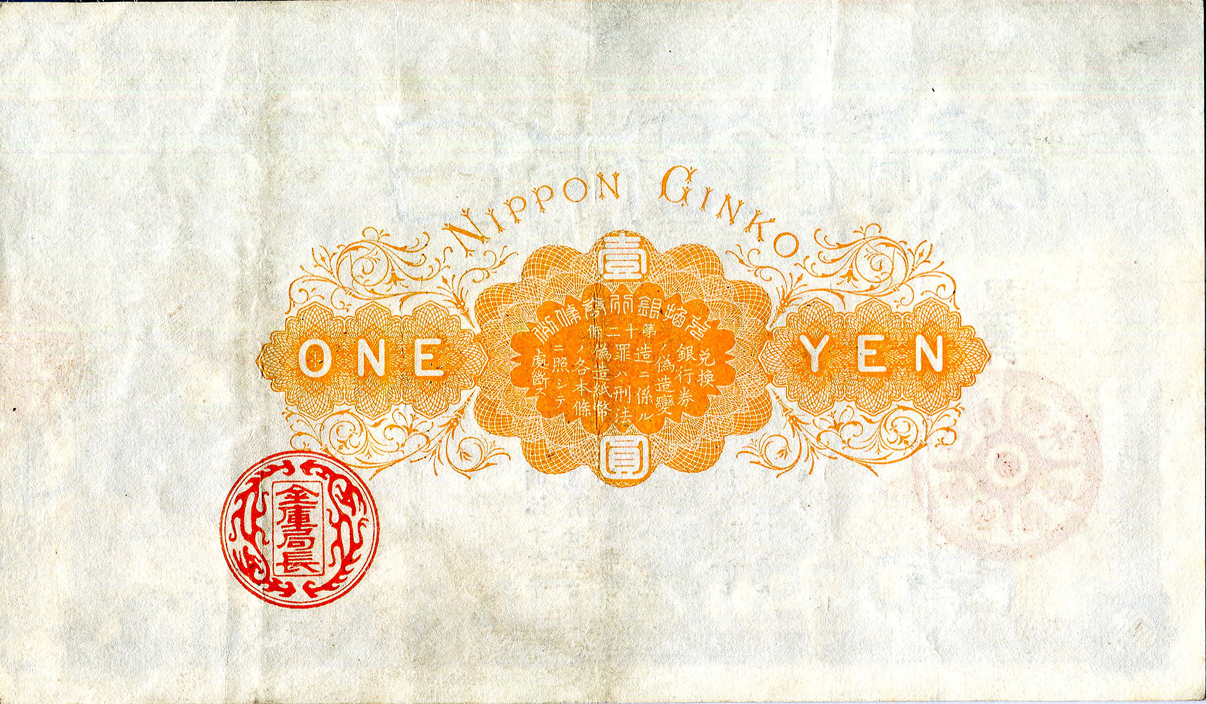 Old 1 Yen Bank of Japan silver convertible note. The oldest valid currency in Japan (as of 2011). First issued in 1885. The statement on obverse: "NIPPON GINKO Promises to Pay the Bearer on Demand One Yen in Silver". Now defined as nonredeemable banknote by law. Virtually not in circulation. Legal tender. 135mm x 78mm